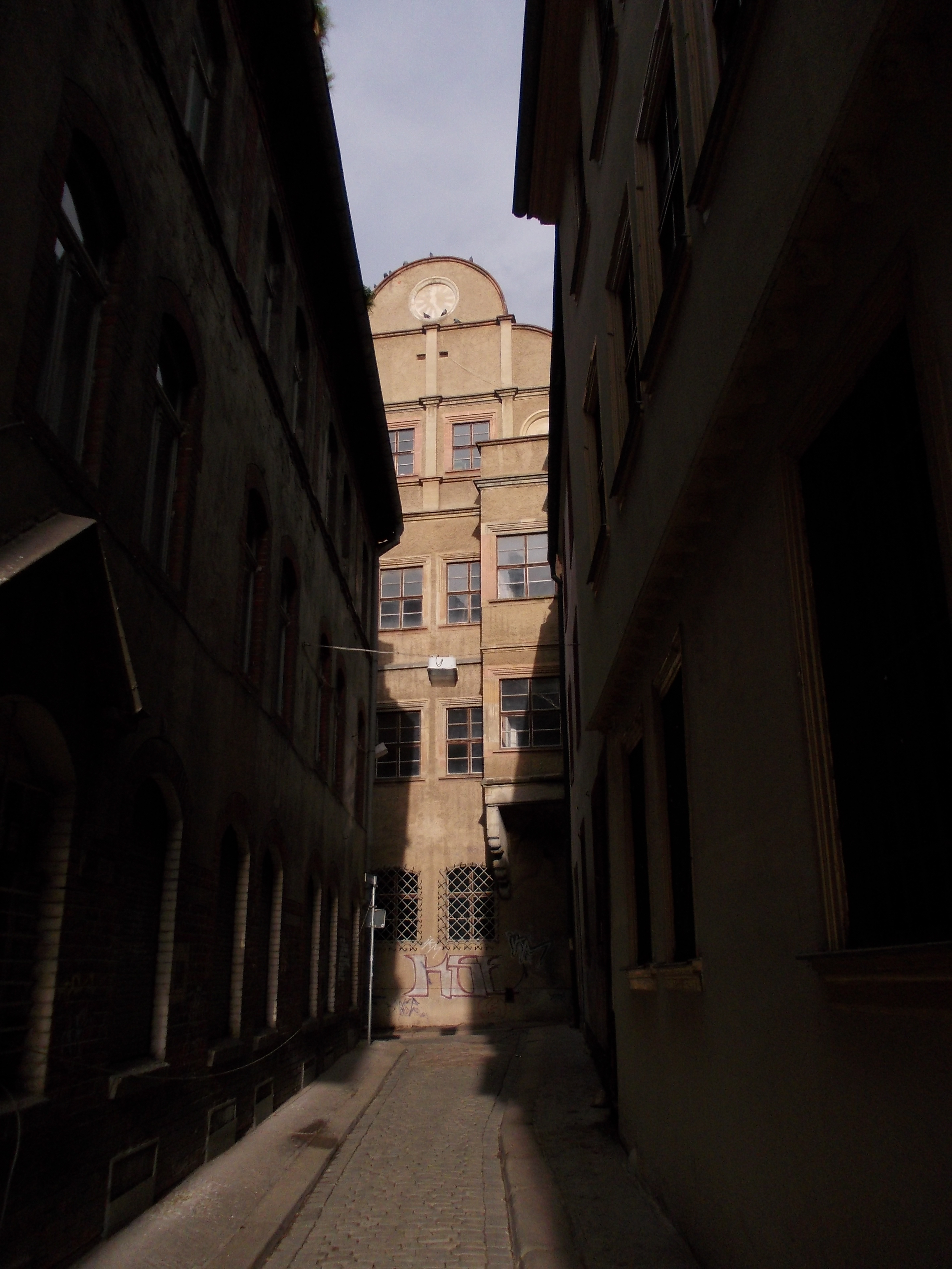 Kühler Brunnen in Halle/Saale (Saxony-Anhalt)